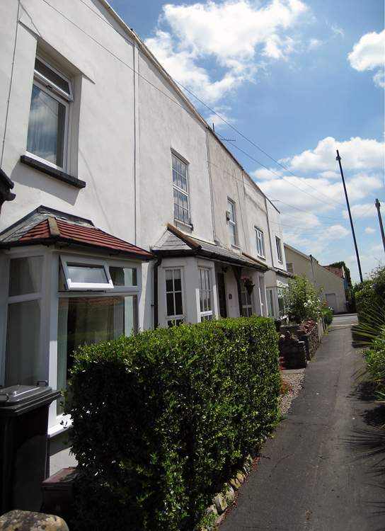 Houses on Golden Hill, Bristol, UK